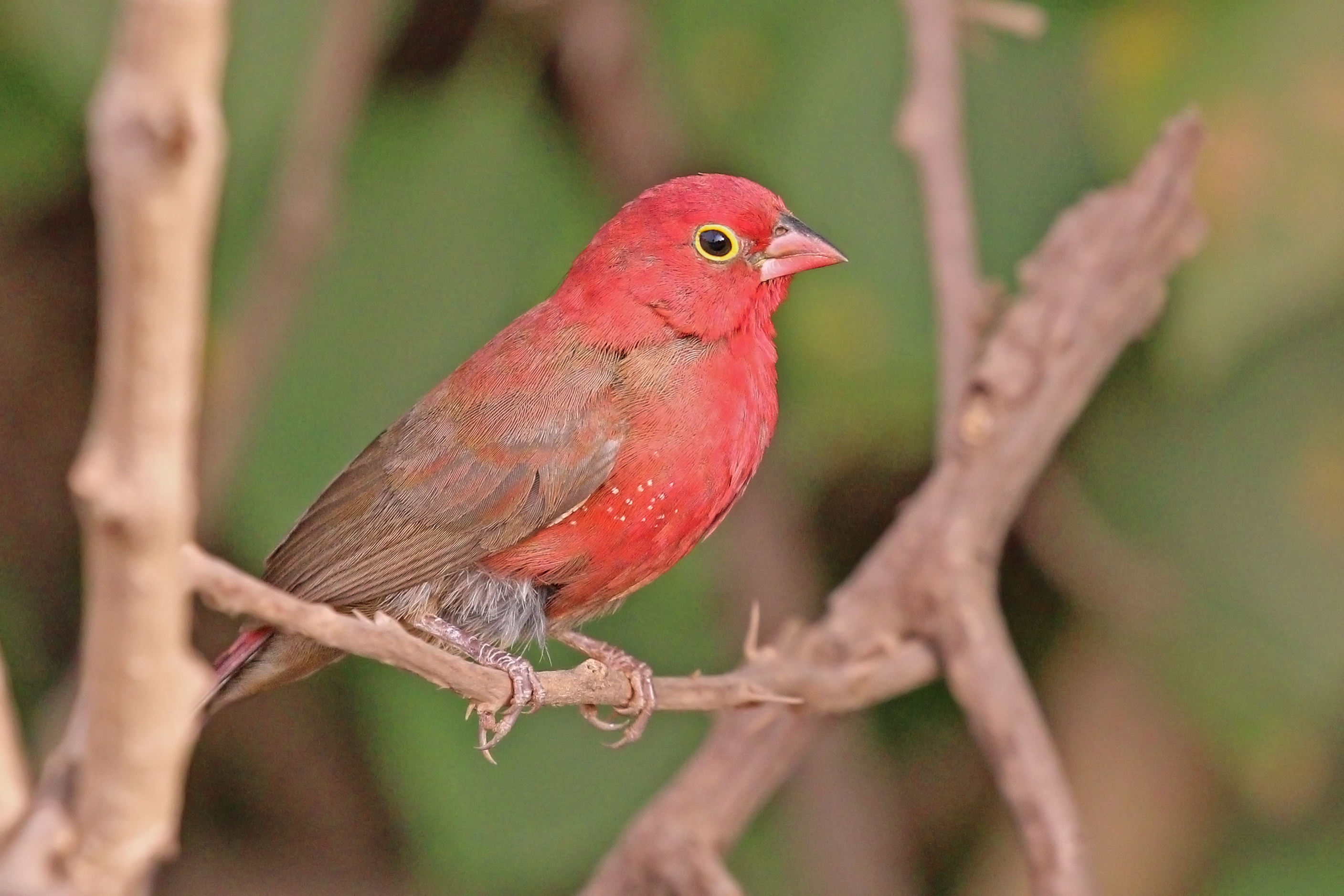 Red-billed firefinch (Lagonosticta senegala senegala) male, The Gambia